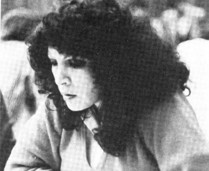 Julia Lebel-Arias